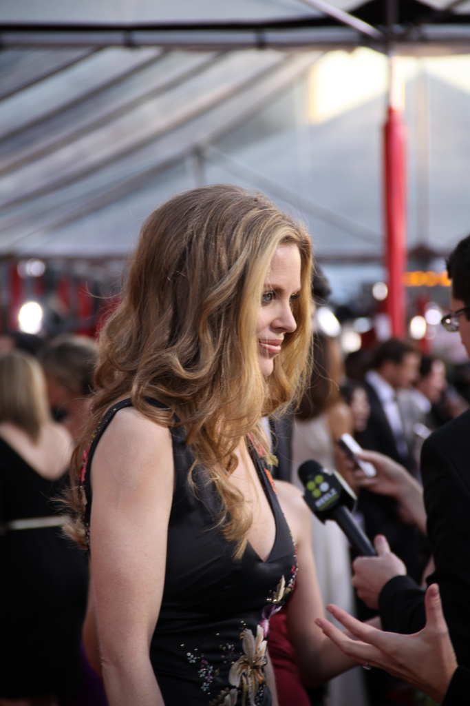 Kristin Bauer at the Screen Actors Guild Awards, Shrine Auditorium, Los Angeles, on January 23rd, 2010.